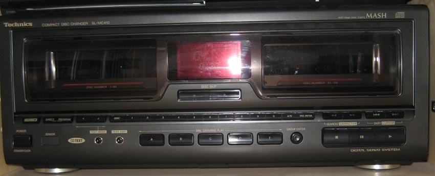 Technics SL-MC410 Compact Disc Changer (1997-1998)